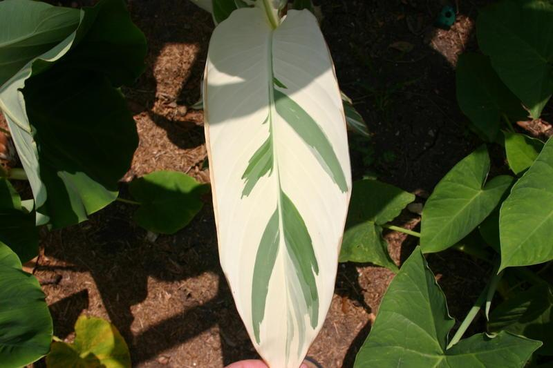 Canna ×generalis, or Canna Lily 'Stuttgart'